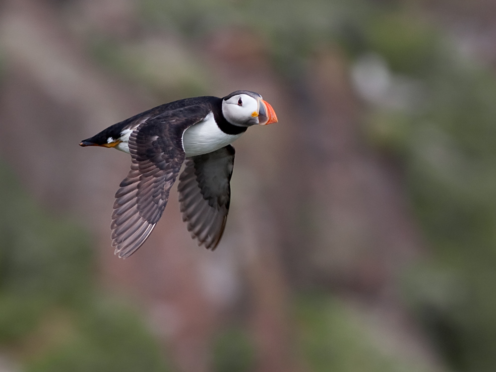 An Atlantic Puffin flying over the Isle of May, Firth of Forth, Scotland.